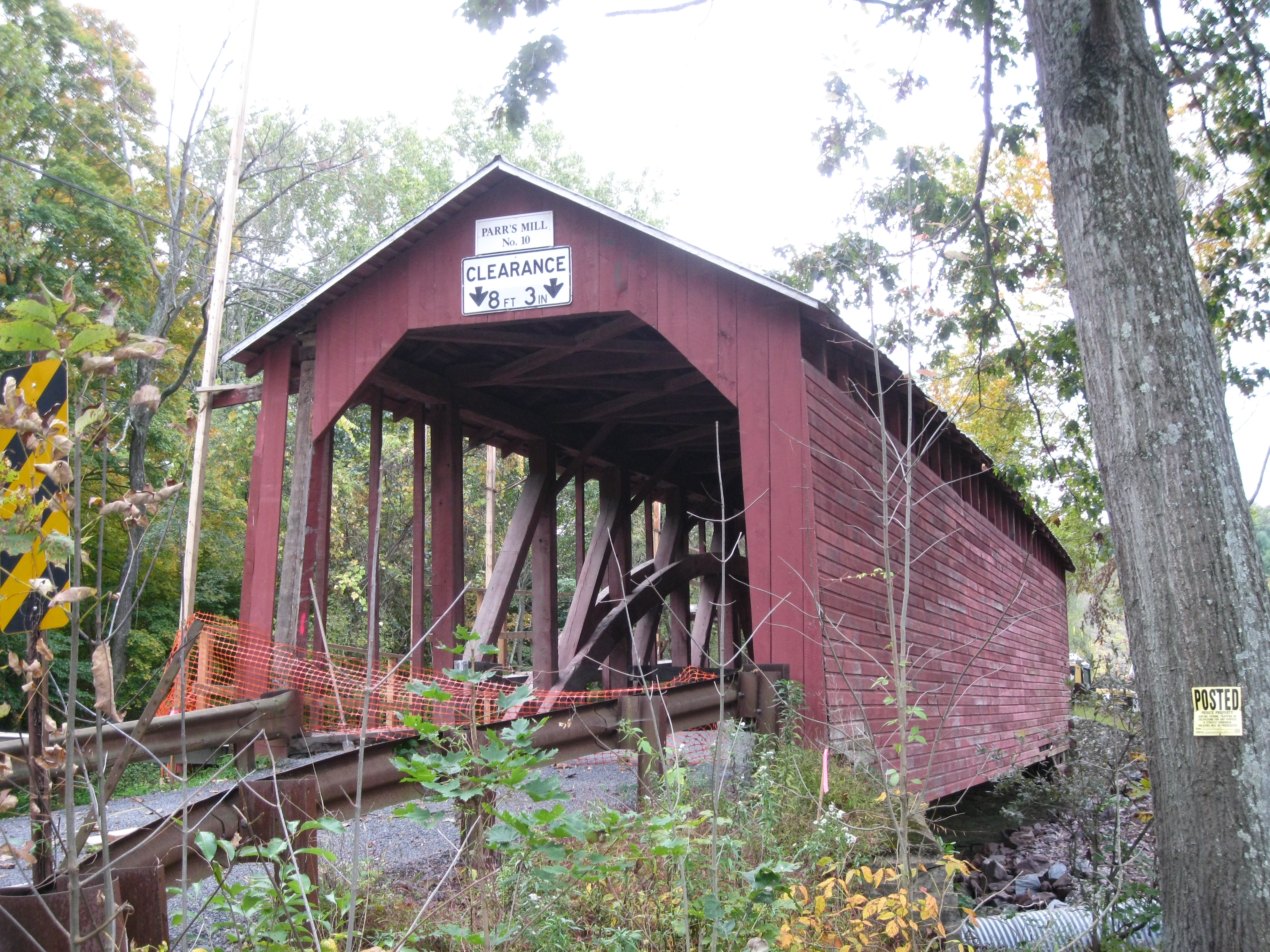 Parr's Mill Covered Bridge No. 10 originally built in 1865 over the North Branch of Roaring Creek between Cleveland Township and Franklin Township in Columbia County, Pennsylvania, in the United States. Being renovated in these photos.